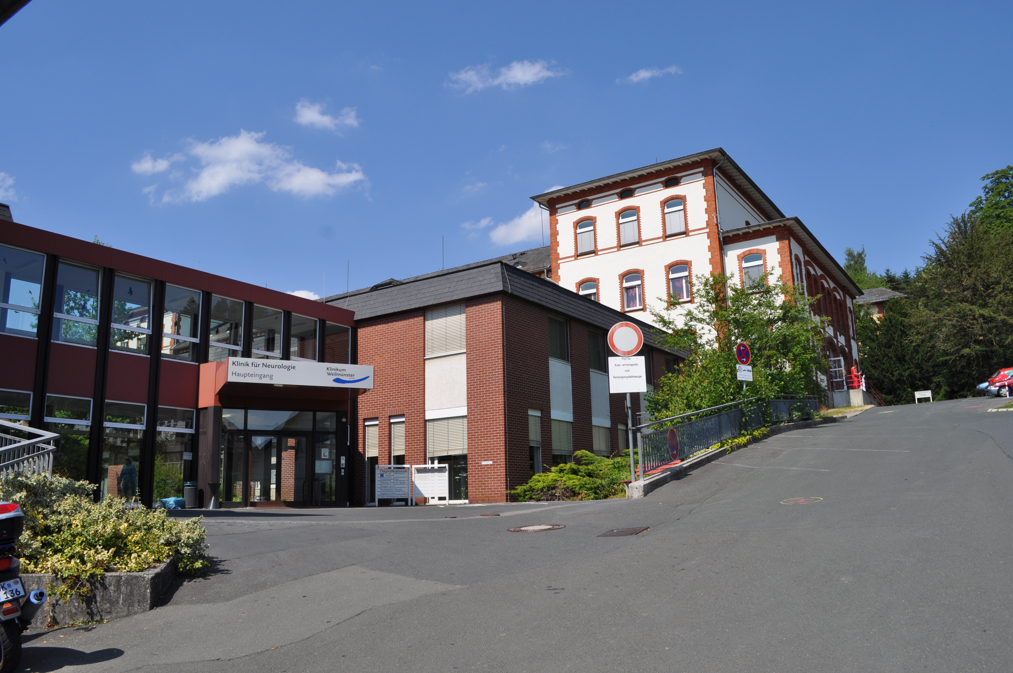 Klinikum Weilmünster, Hesse, Germany